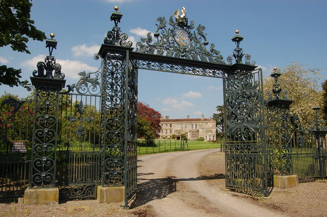 Restored gates at Elmore Court These gates were restored between 1999 and 2001 with the assistance of a grant from English Heritage.